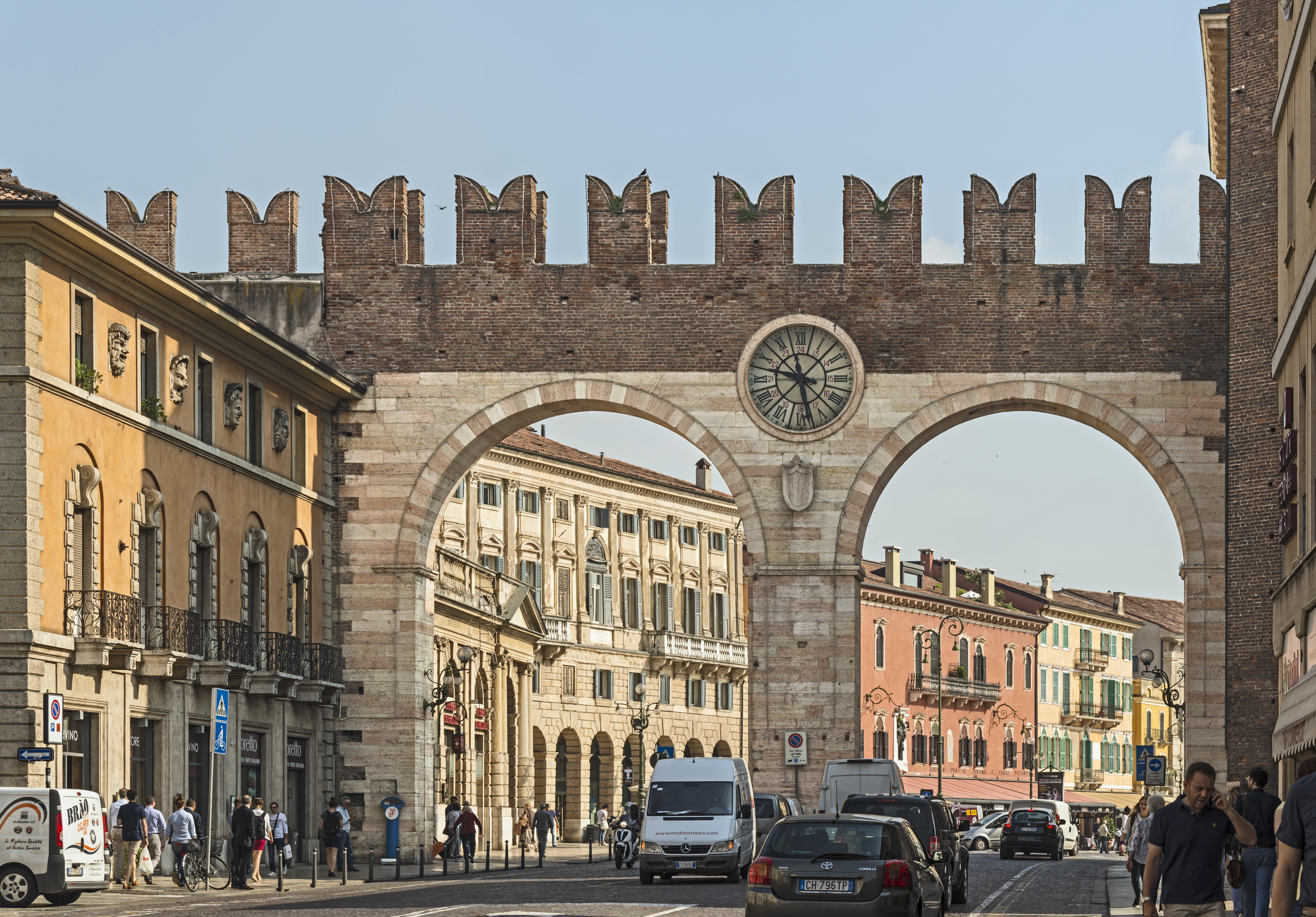 Piazza Bra in Verona. South exposure of the Portoni della Bra.